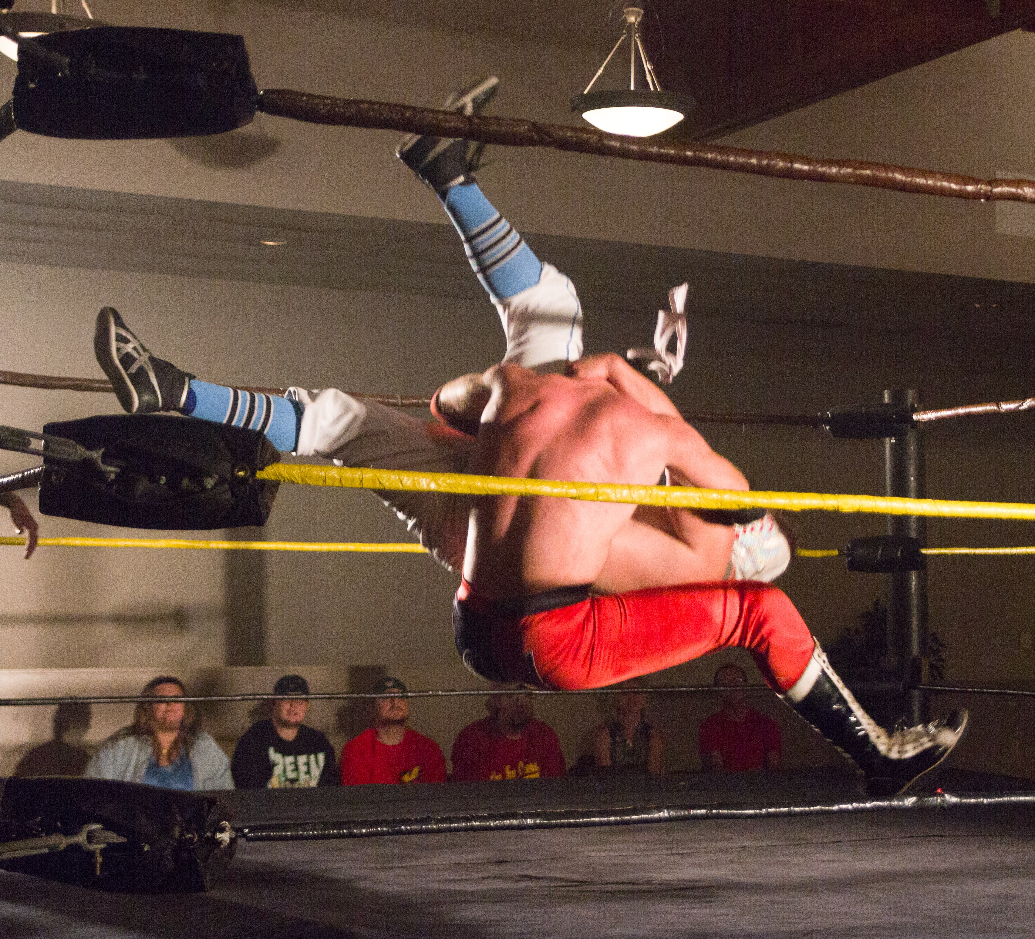 Wrestler El Generico (in red and black tights) executing a spin-out powerbomb on Dasher Hatfield at Chikara's A Foggiest Notion show in Strathroy, ON